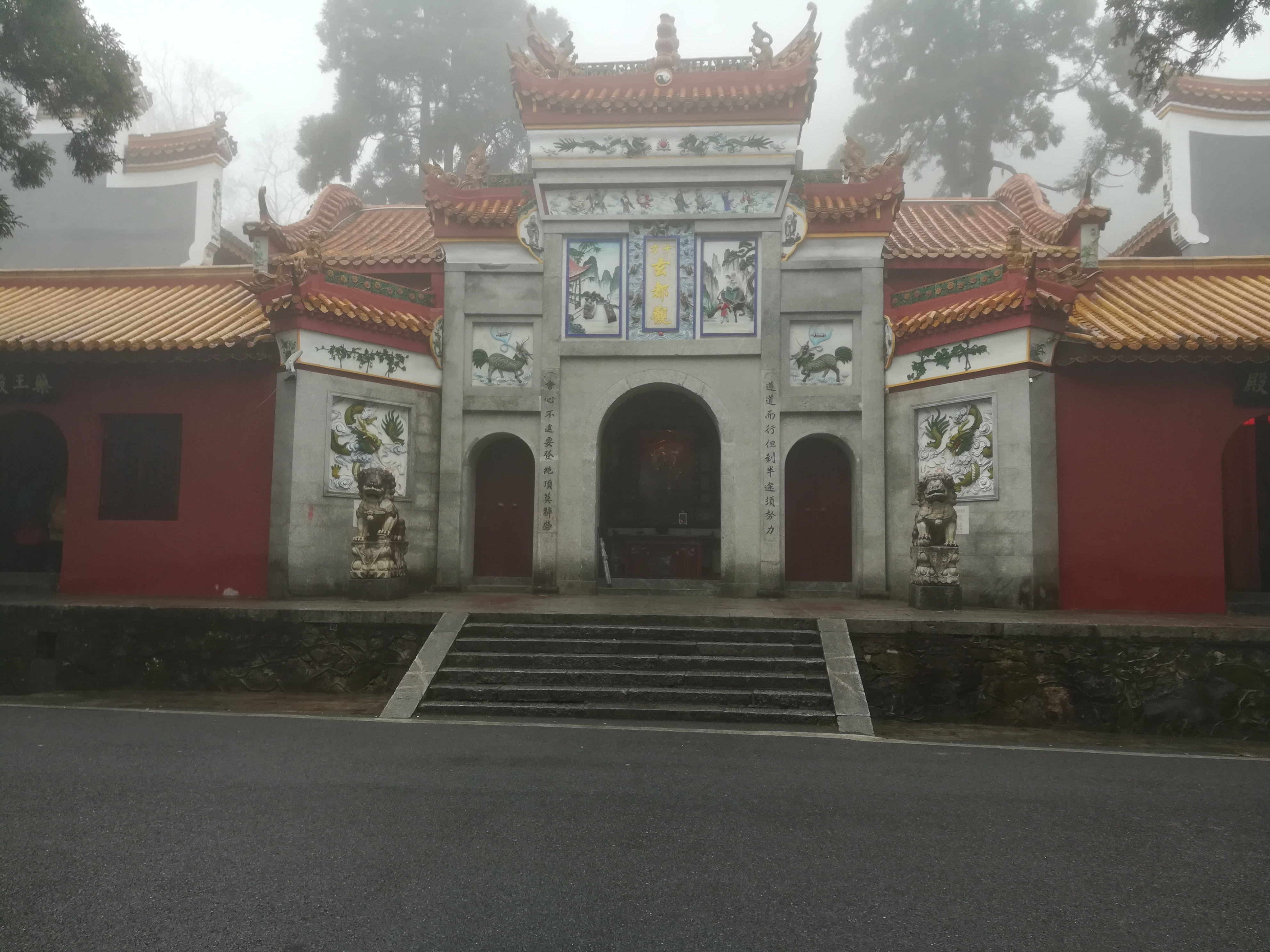 The shanmen of Xuandu Palace in Mount Heng (Hunan).